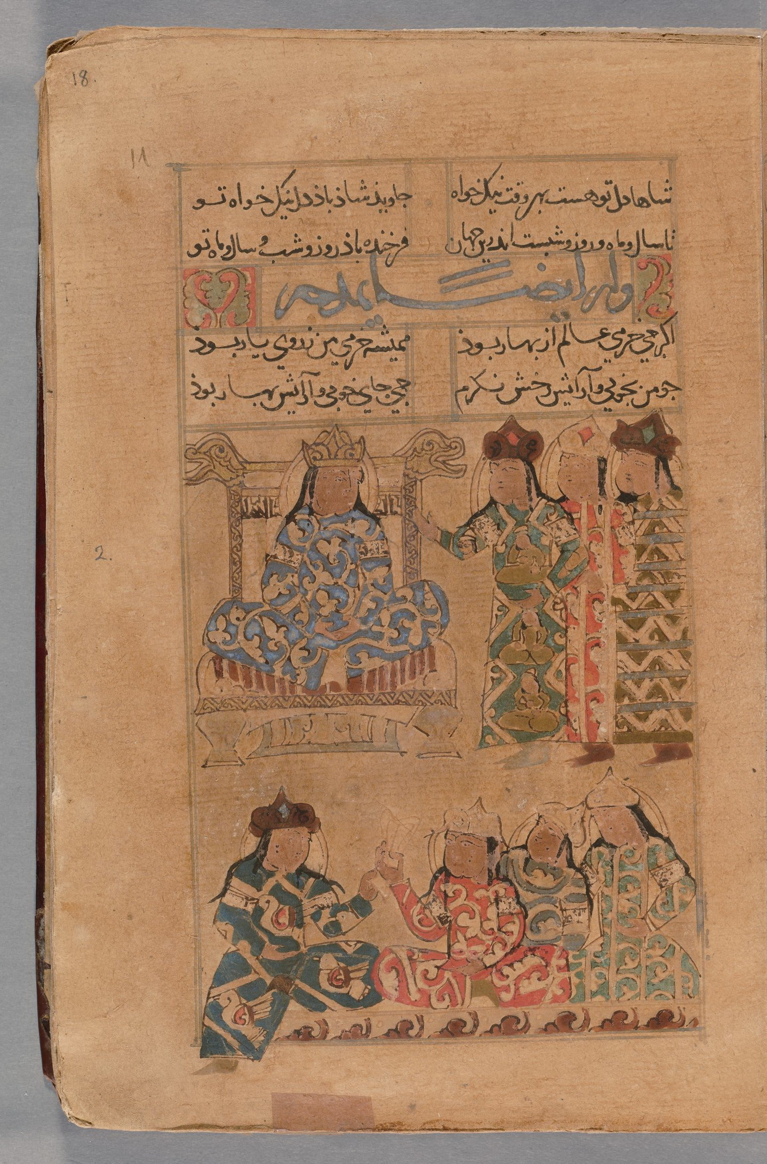 Dīvān-i kāmil-i ashʻār-i malik al-shuʻārāʼ Amīr Muʻizzī